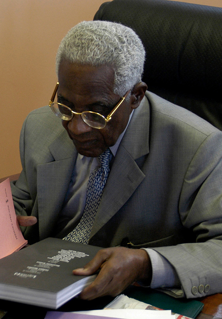 Martinican poet and politician Aimé Césaire with Philippe Mouillon, artist Igbo: Aimé Césaire nwá Matiniki ónyé ábụ̀ nà ónyé ísí ọ̀cị́cị́.